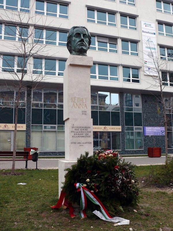 The statue of Anna Kéthly in Budapest, Kéthly Anna Square